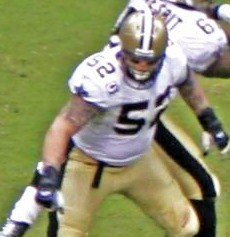 New Orleans Saints quarterback Drew Brees attempts a pass in a game against the Houston Texans.